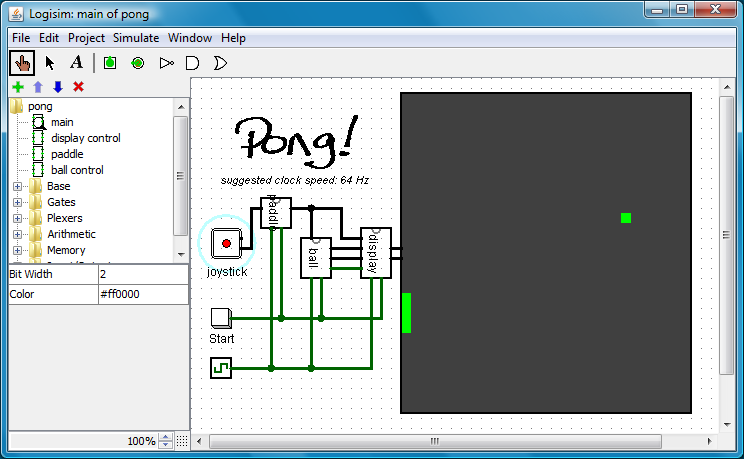 Screenshot of a circuit built in Logisim 2.5.1 to implement a simple version of the Pong game.